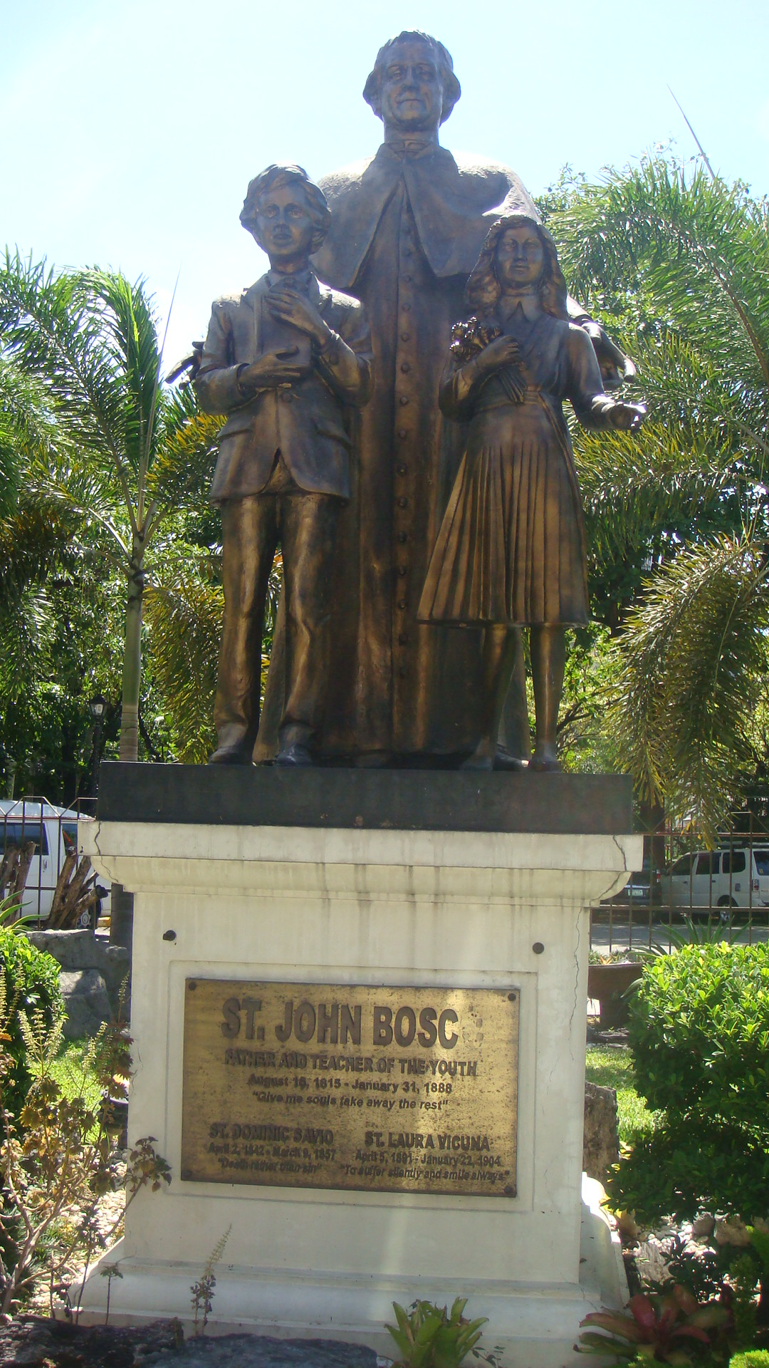 Statue of Don Bosco, St. John Bosco Parish Church, Makati City[1]